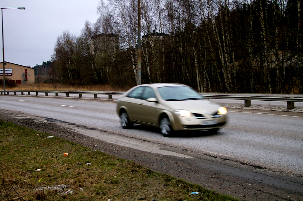 Road 271 in Stockholm, Magelungsroad april 2007